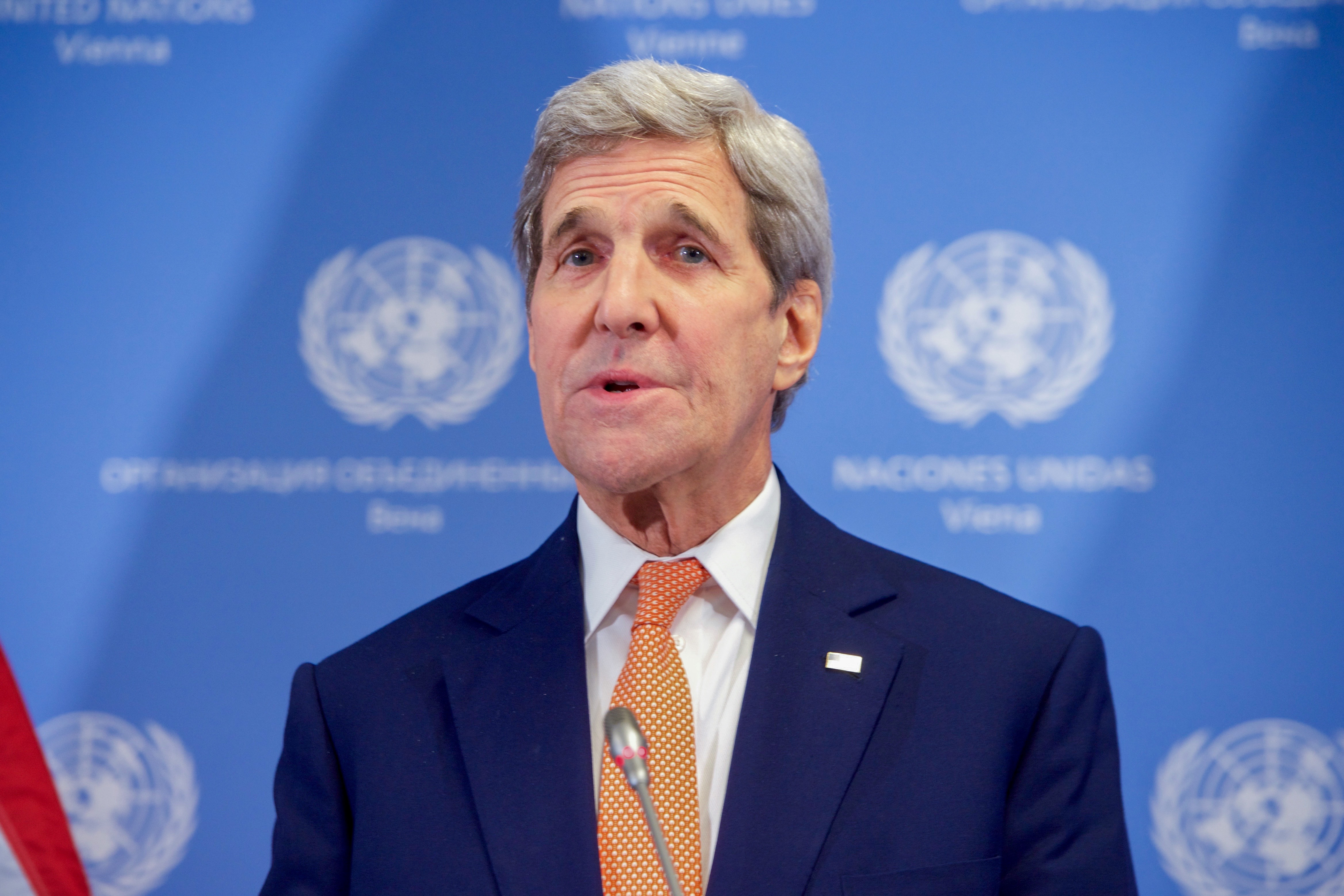 U.S. Secretary of State John Kerry addresses reporters gathered at the Vienna International Center in Vienna, Austria, on January 16, 2016, after the implementation of the Joint Comprehensive Plan of Action outlining the shape of that country's nuclear program. [State Department Photo/Public Domain]